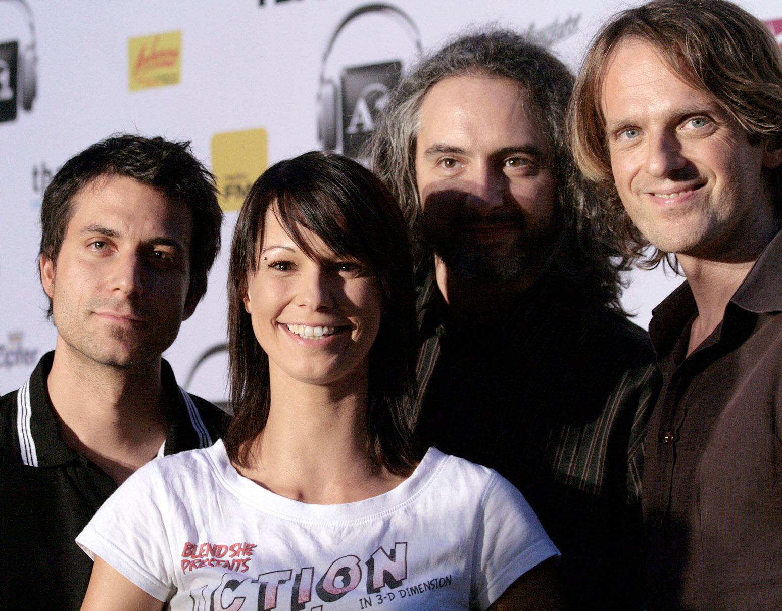 Christina Stürmer and Band at the Amadeus Austrian Music Award (Museumsquartier, Vienna)